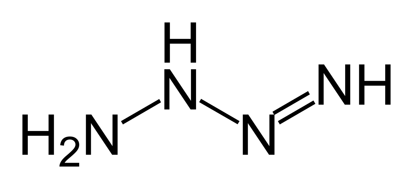 Description: Chemical structure of tetrazene (N4H4). Author, date of creation: self made by Ben Mills at 13:52, 8 March 2006 (UTC). Source: user-created image Comments: high-resolution black and white PNG; ChemDraw / Photoshop.